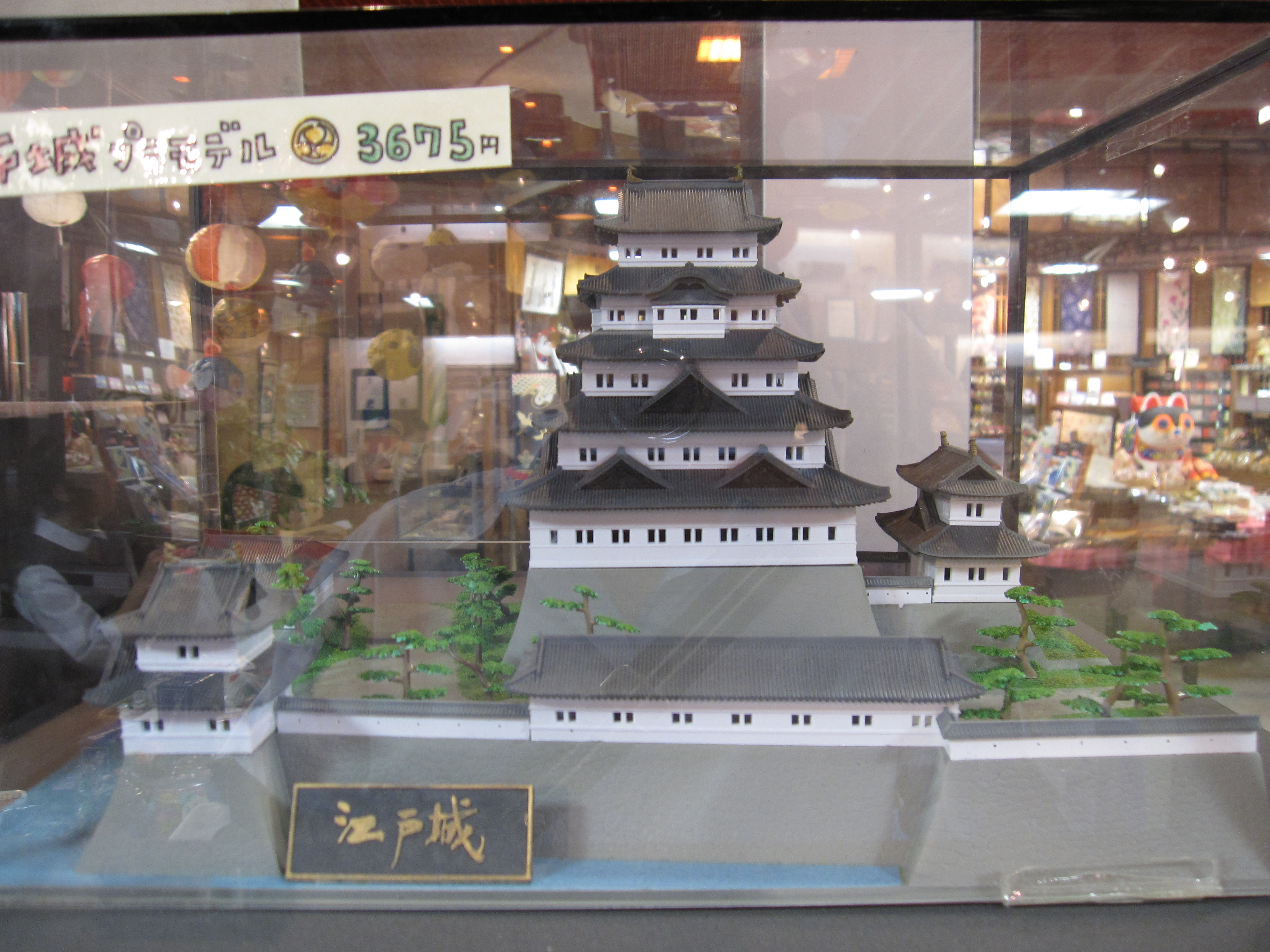 1:350 Model of Edo Castle by Doyusha.